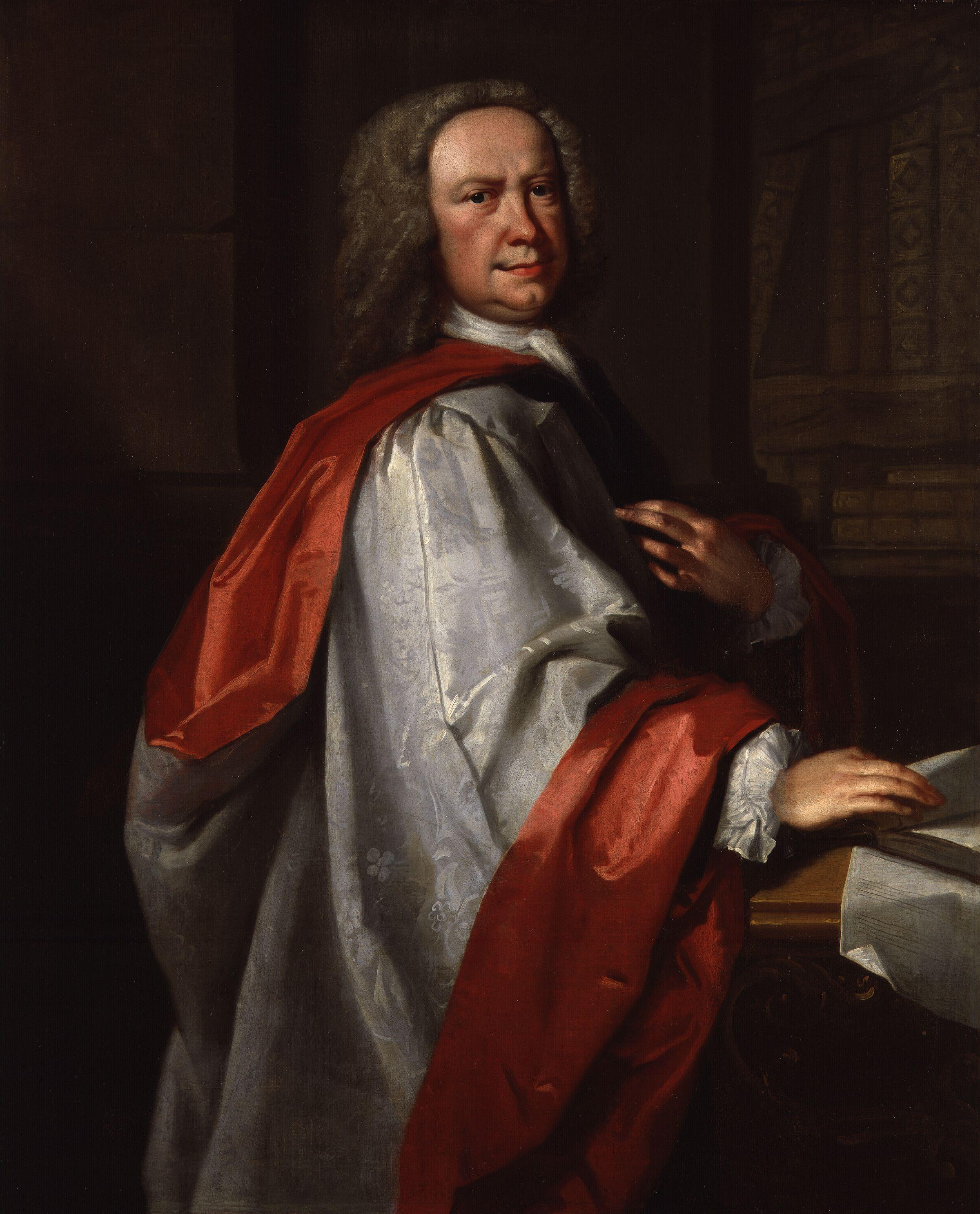 by Thomas Hudson (died 1779). All images in this batch have been confirmed as author died before 1939 according to the official death date listed by the NPG.